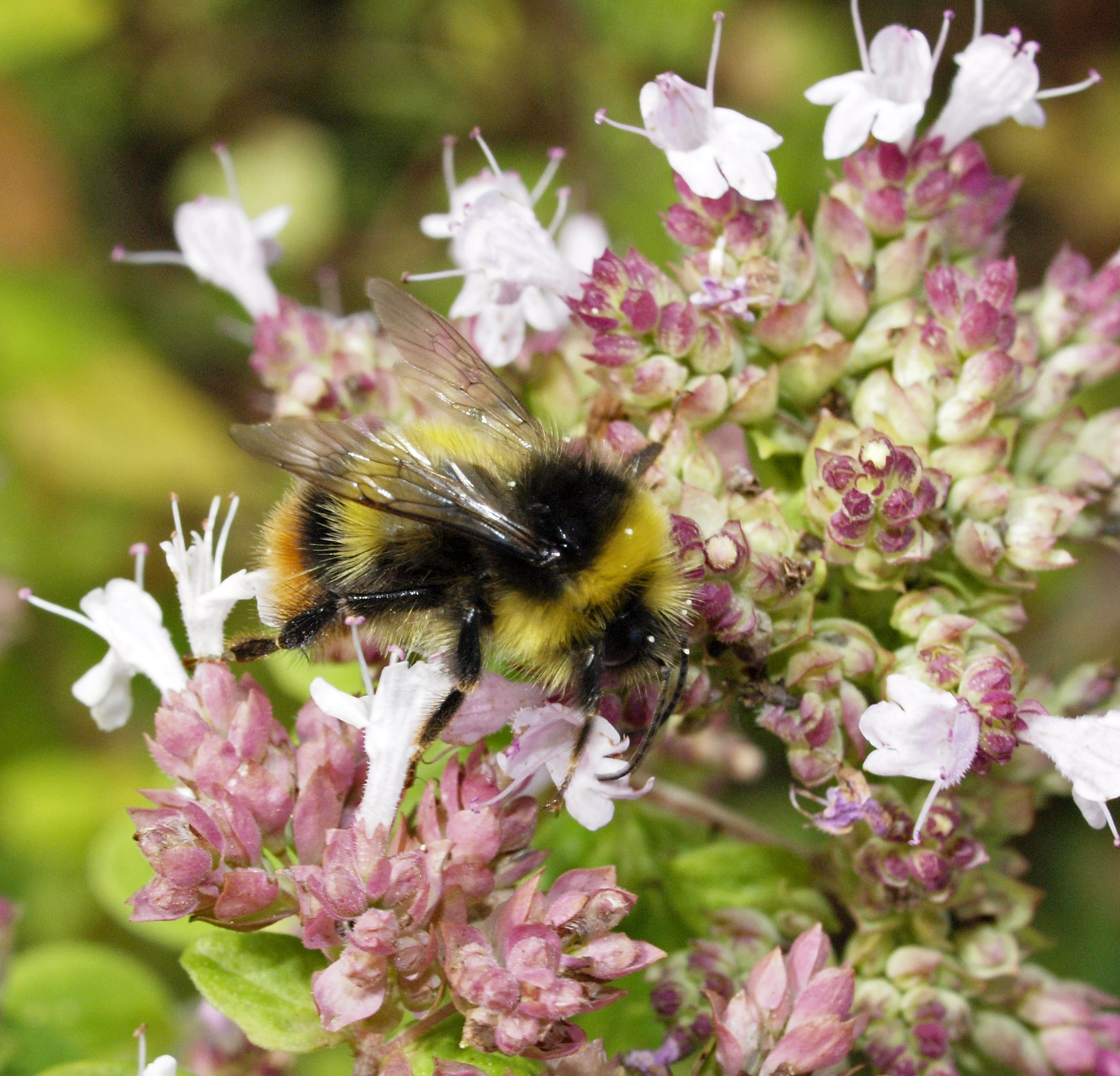 Broken-belted bumblebee (Bombus soroeensis) drone